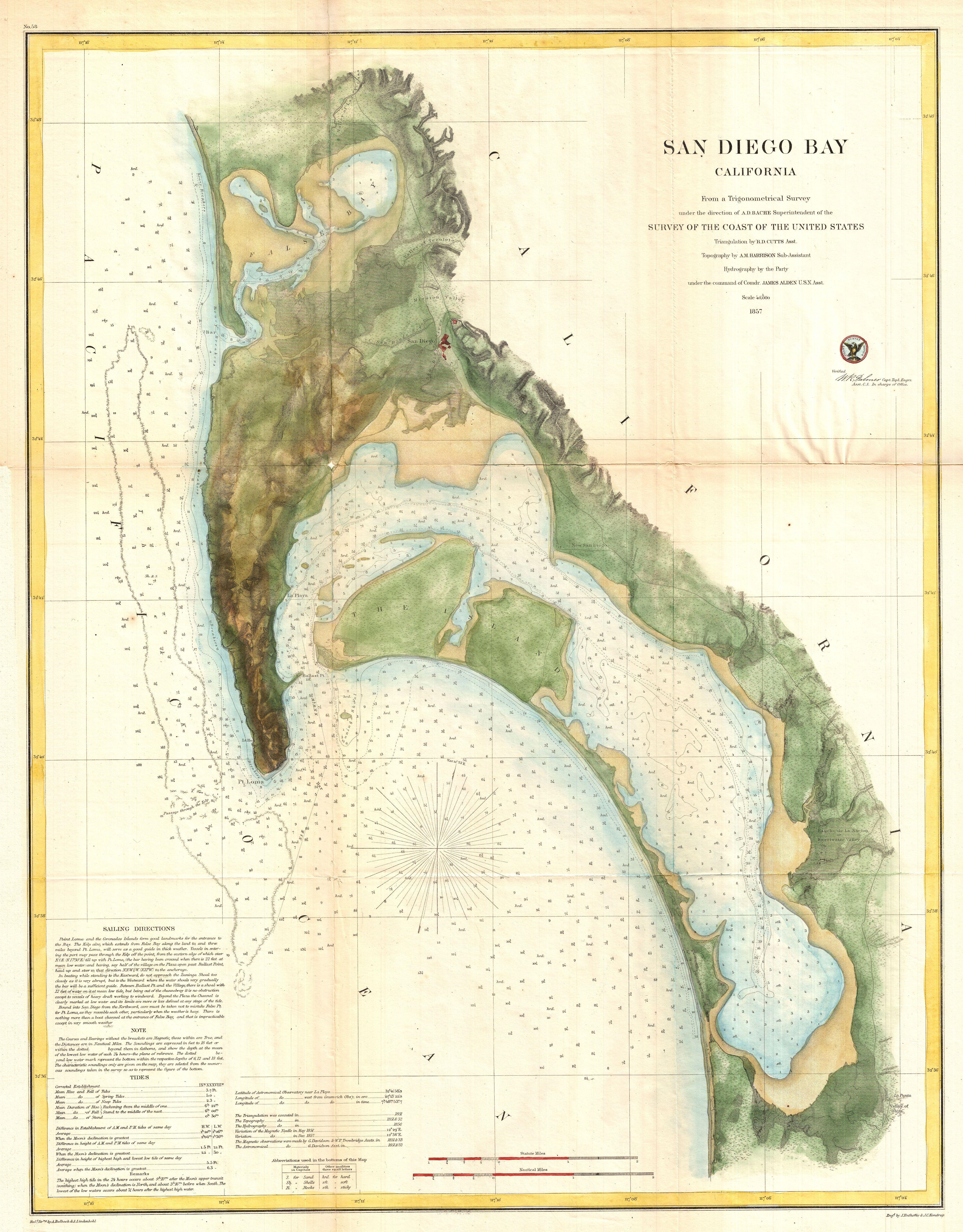 This is the most attractive map of San Diego Bay, California, to emerge from the work of the U.S. Coast Survey. Covers the San Diego area from False Bay and the Valley of Las Yeguas southward past Mission Valley and San Diego city to San Diego Bay and the villages of La Punta and the Valley of Ohjia. Offers superb detail both inland and at sea. Inland detail includes topographical features, rivers, roads, and villages. Villages and cities, including San Diego, La Playa, New San Diego, and others, are detailed to the level of individual buildings. Nautical details include innumerable depth sounding, breakwaters, and notes on the Kelp Beds off the coast of Point Loma. Lower left quadrant features textual sailing instructions as well as notes on the tides and a history of the chart. This cart was prepared under the supervision of A. D. Bache for inclusion in the 1857 edition of the Report of the Superintendent of the United States Coast Survey . The triangulation for this chart was accomplished by R. D. Cutts, the topography by A. M. Harrison, and the hydrography by a party under the command of James Alden.